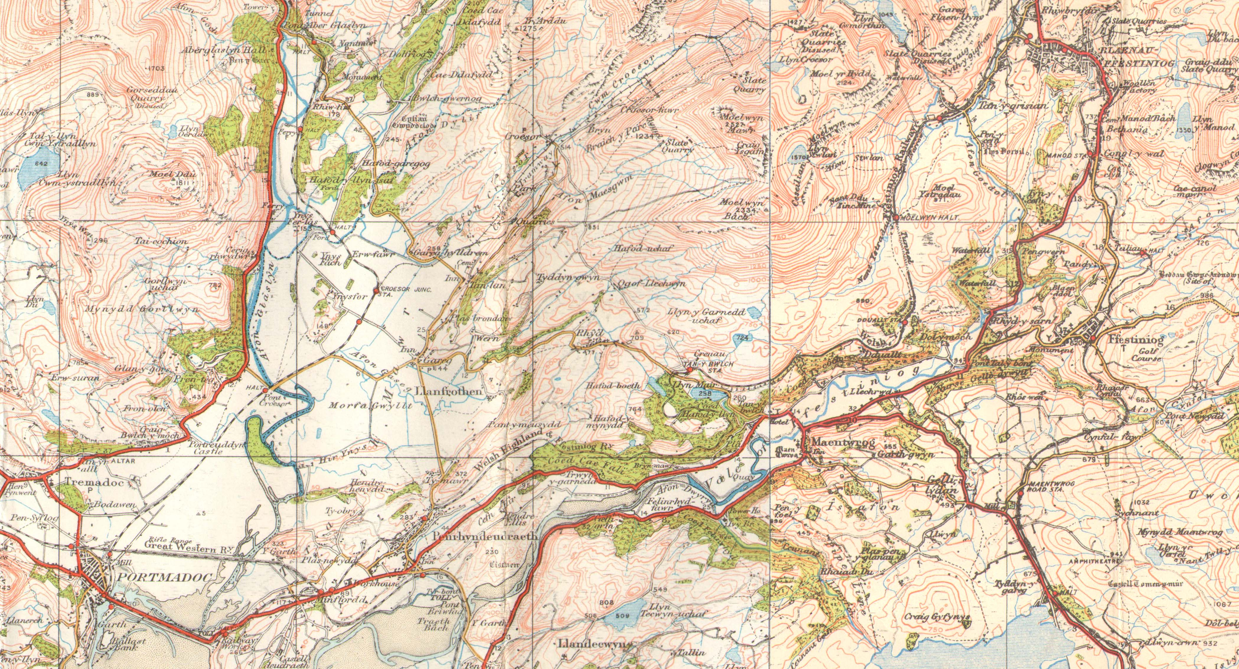 One-inch map showing route of Festiniog Railway abiout 1921-2. This is a composite of Popular Edition one-inch sheets 49 (published 1922) and 50 (published 1921).